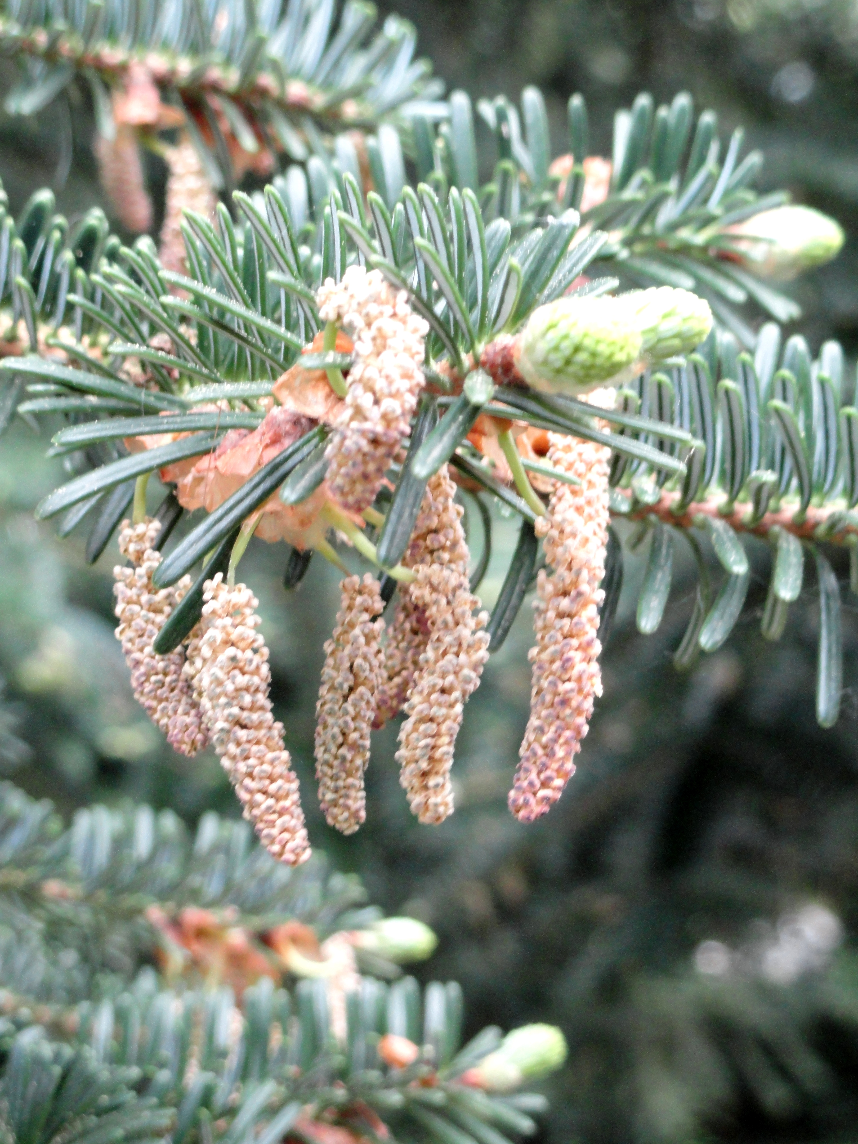 Abies chensiensis specimen in the Botanischer Garten Freiburg, Freiburg im Breisgau, Baden-Württemberg, Germany.